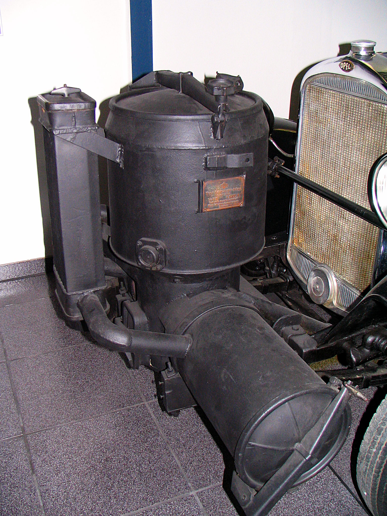 Holzvergaser 1940 wood carburetor 1940